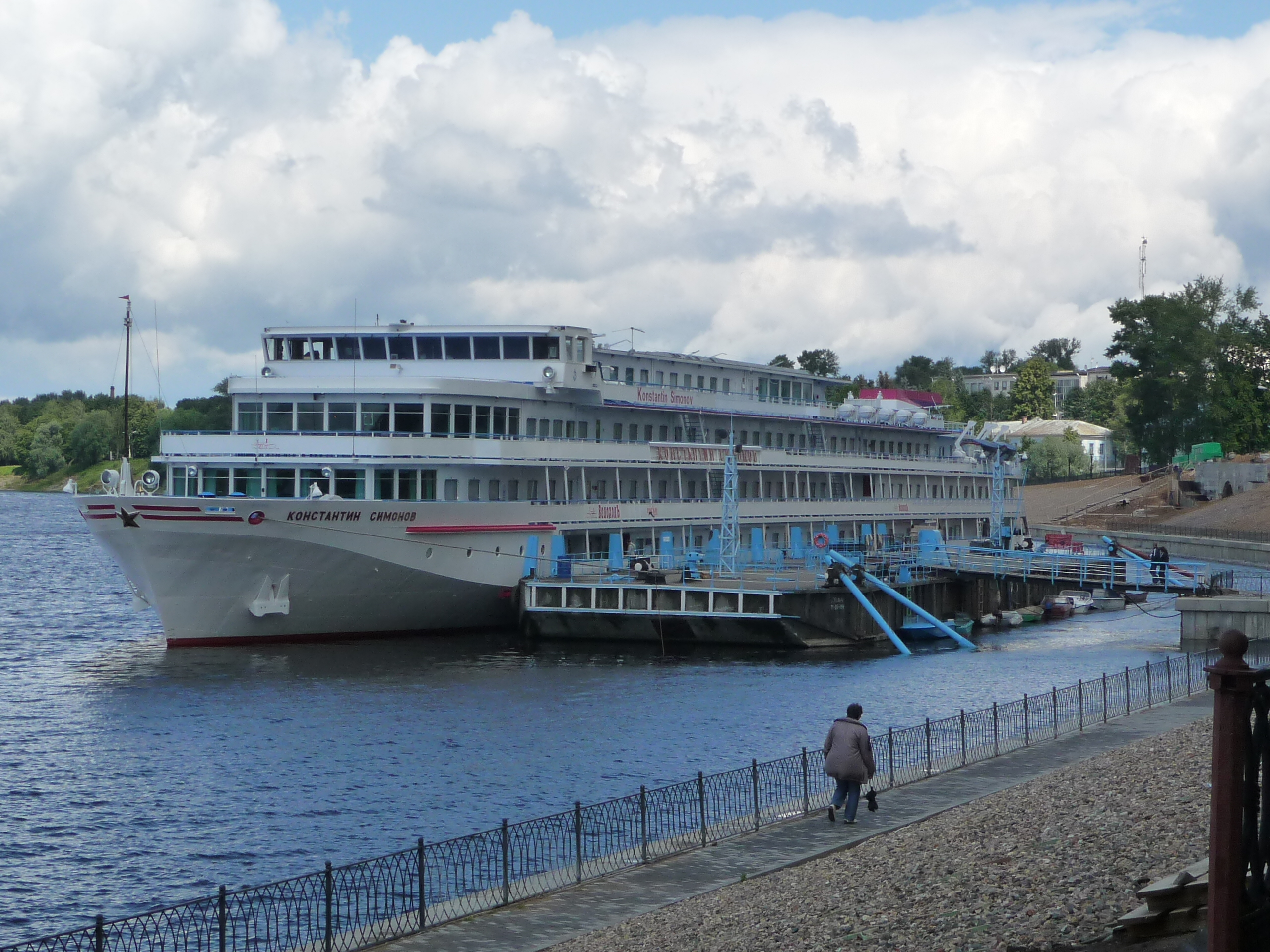 Konstantin Simonov at pier in Uglich 4 July 2009